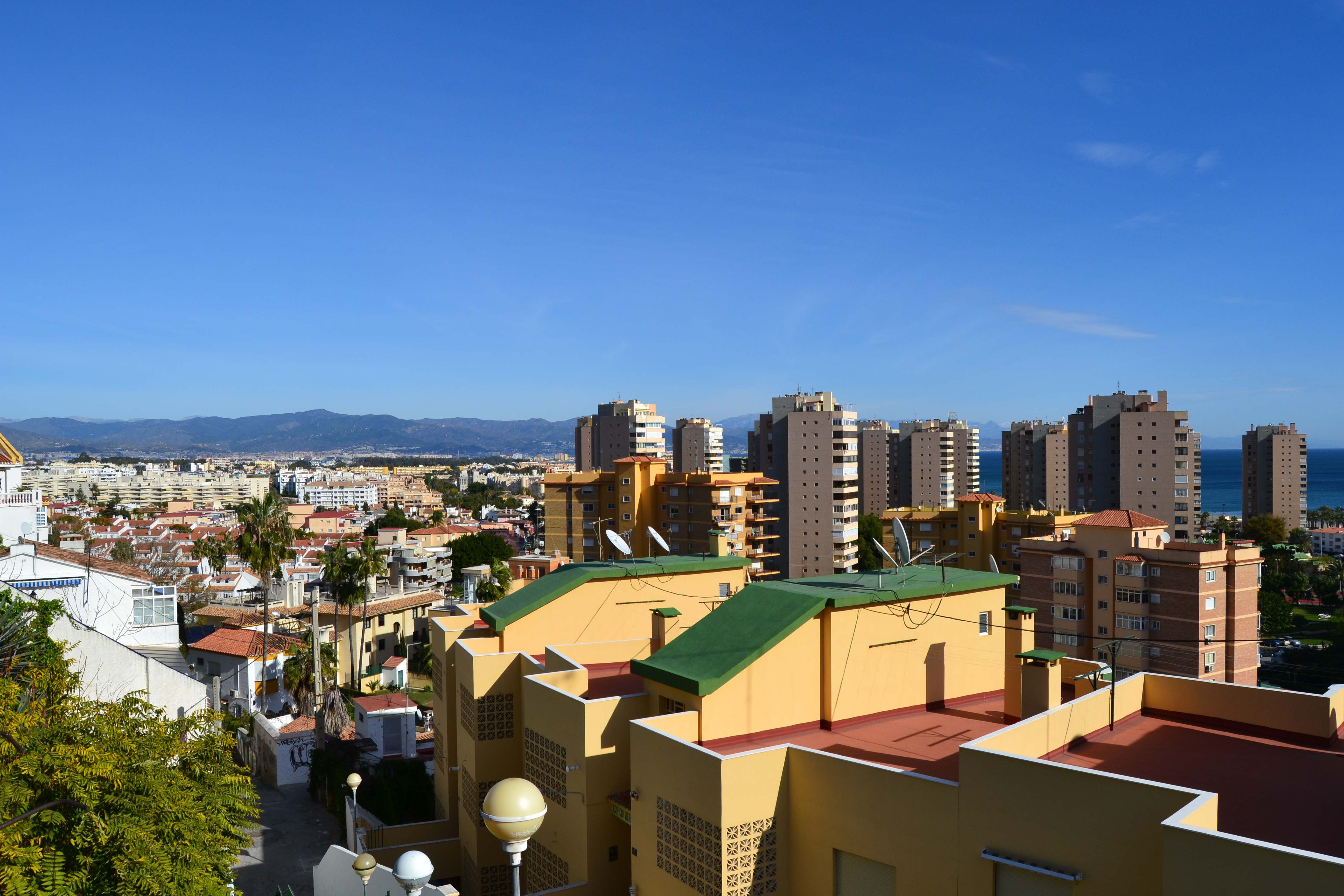 Very typical view in the whole Costa del Sol indeed.